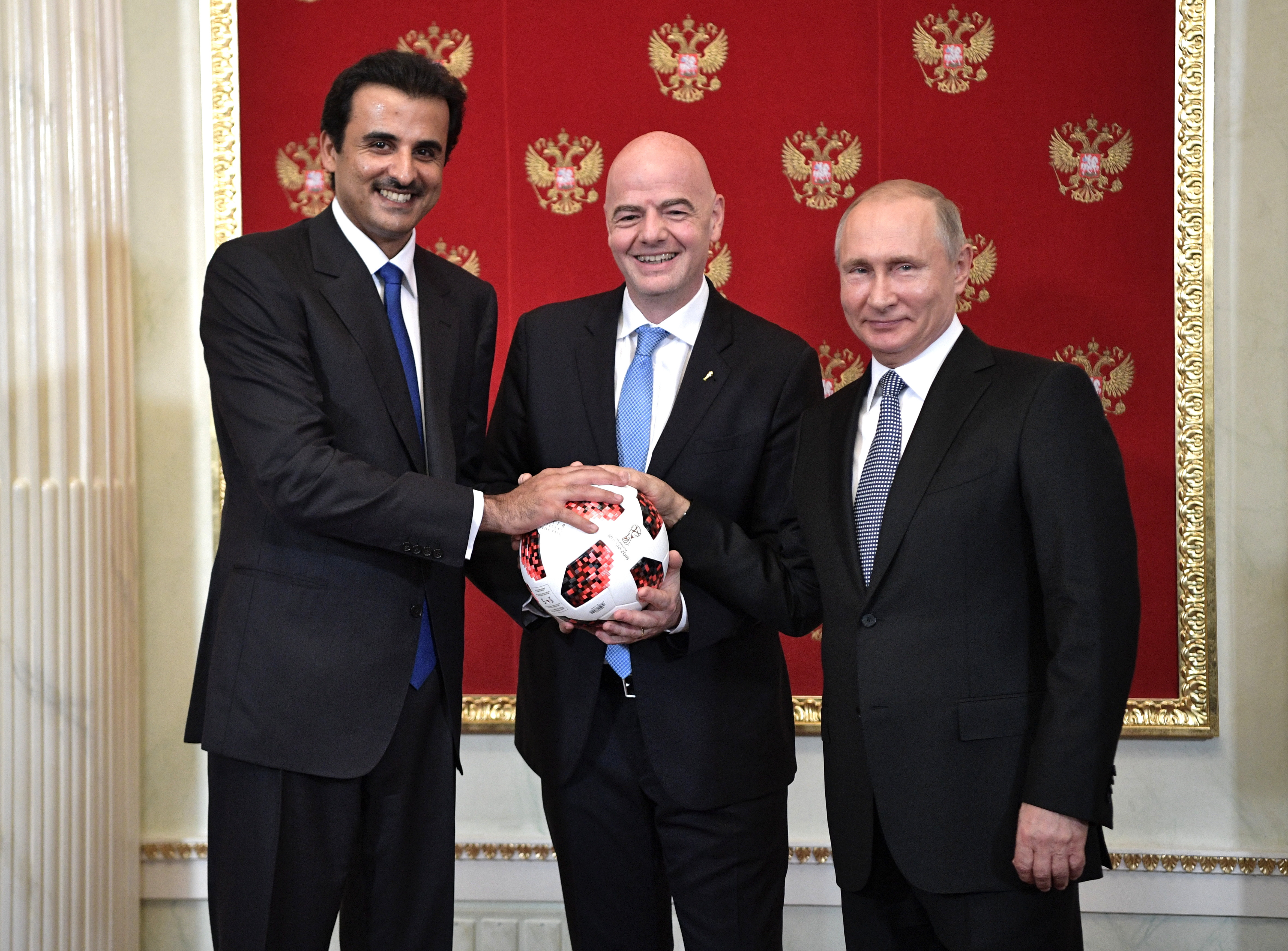 Russia handed over the torch relay of the World Cup to Qatar